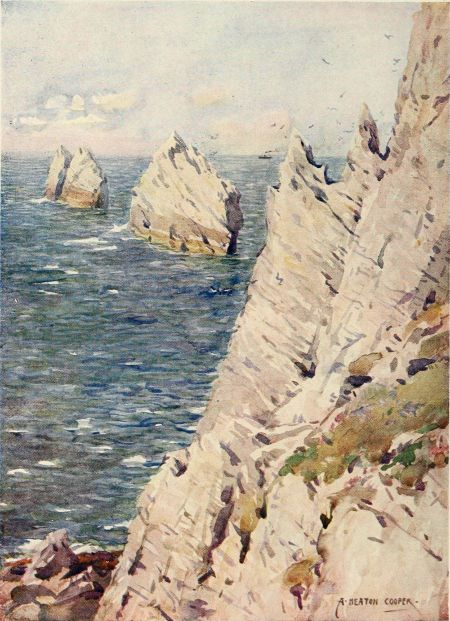 Painting of The Needles, Isle of Wight.